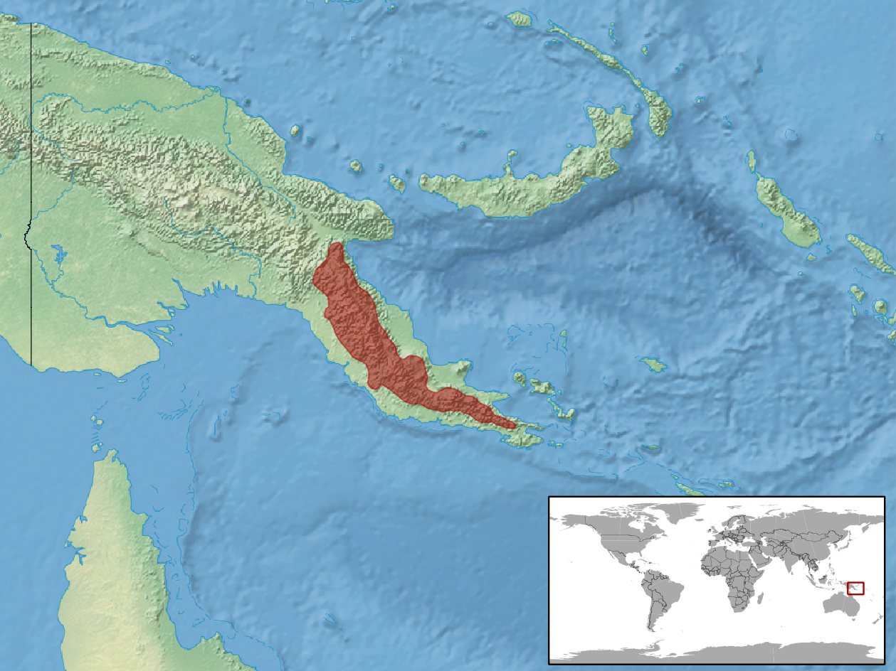 geographic distribution of Sphenomorphus nigrolineata